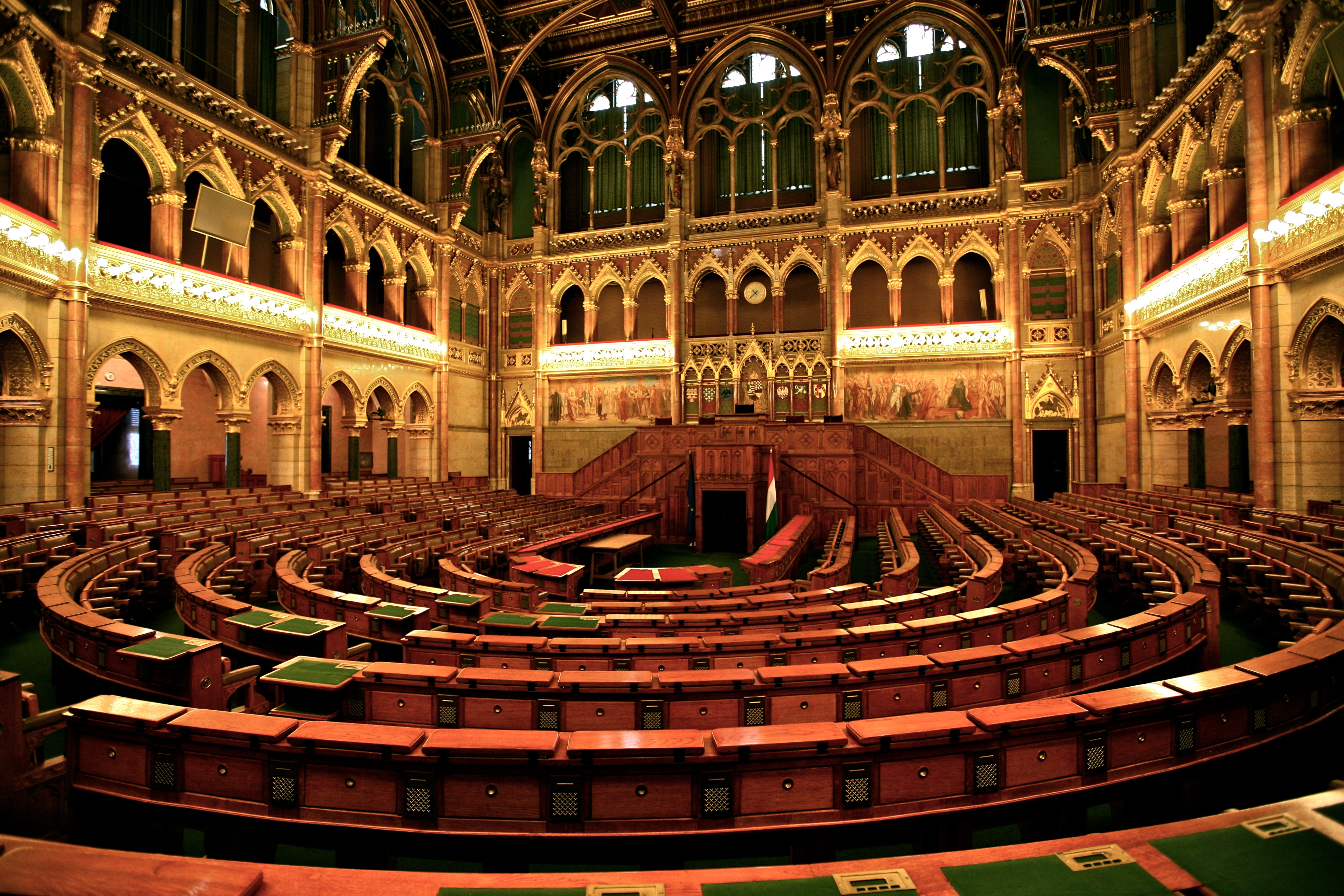 Debating chamber of the House of Magnates, Hungarian Parliament Building, Budapest.